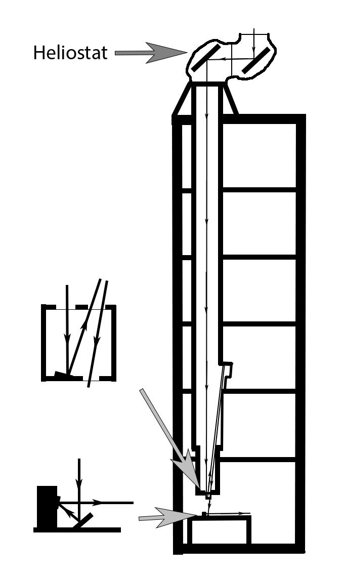 This diagram shows the course done by the ray of light in the telescope.